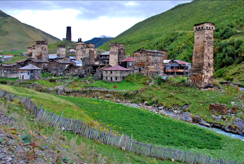 Ushguli Svaneti